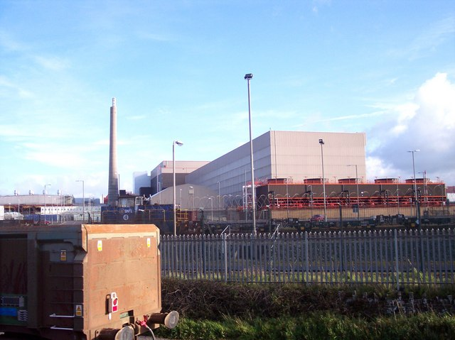 Sellafield power station viewed from railway line